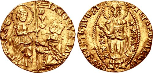 ITALY, Genova. Jacopo Gattilusio, Lord of Lesbos. 1404-1428. AV Ducat (20mm, 3.29 g, 12h). Mytilene mint. ·/D/·/M/Є/T/Є/L to left, D/V/X and IΛCOBVS · GΛT · to right, S. Marco standing right and Doge kneeling left, holding banner between them / SIT · T XPЄ · DΛT’ · Q TV RЄGIS · ISTЄ · DVCΛT ·, Christ standing facing, raising hand in benediction and holding Gospels, surrounded by mandorla containing nine stars; pellet between feet. Schlumberger, pl. XVI, 7; Ives, pl. XII, 2; Gamberini 366. VF, lightly toned, slightly wavy flan.